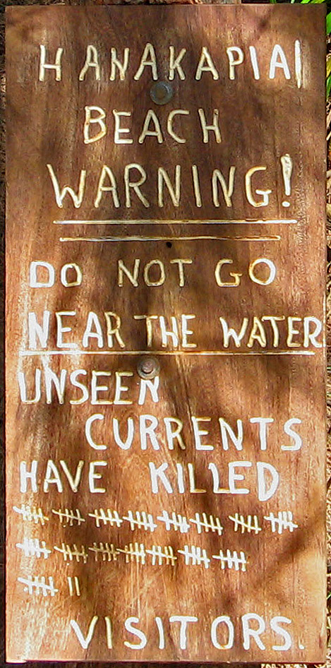 Super Crop showing only the sign.